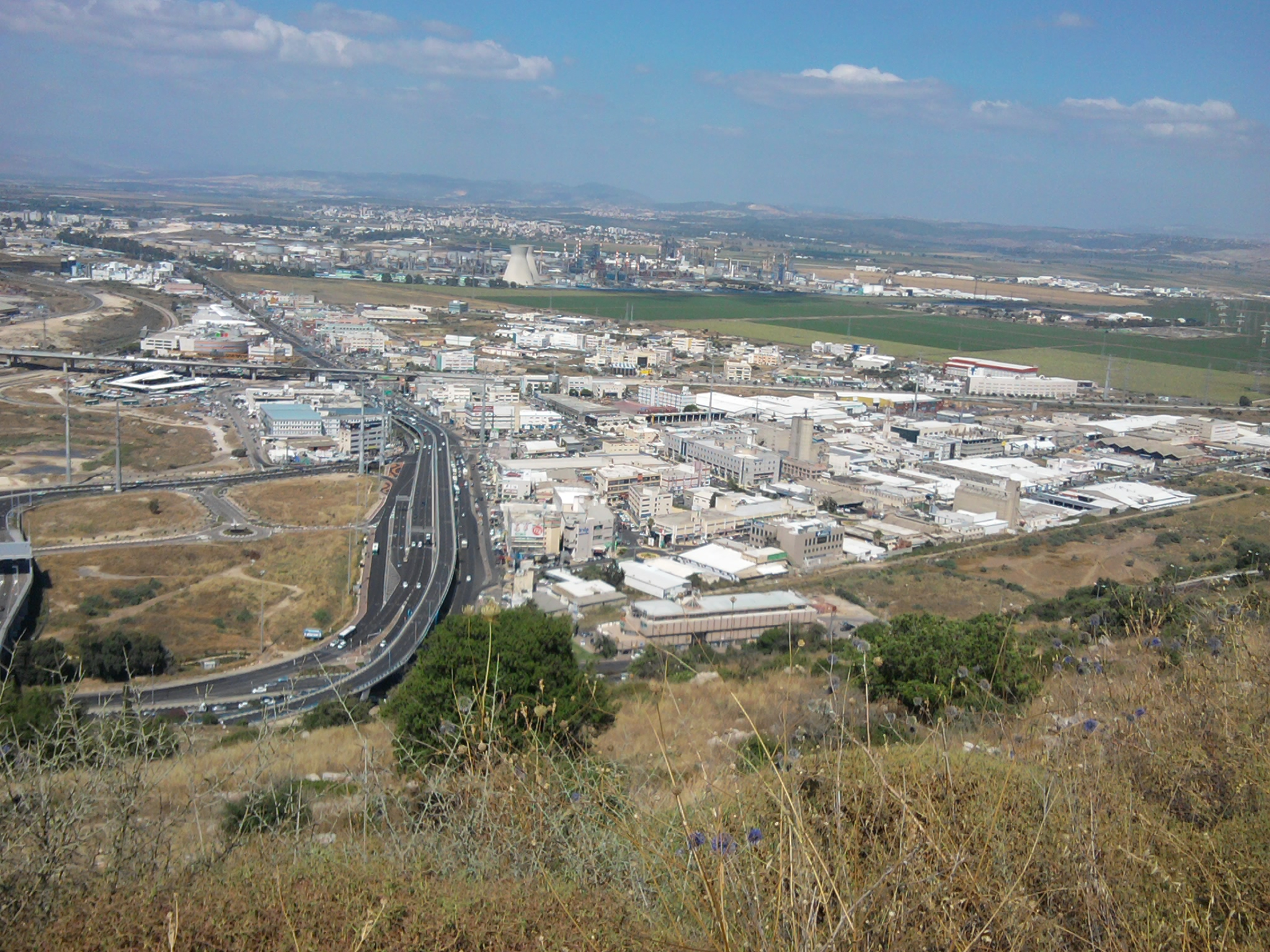 Checkpost - a business subdistrict in eastern Haifa. The Haifa oil refineries are seen at the far back, with the hills of Galilee behind them.